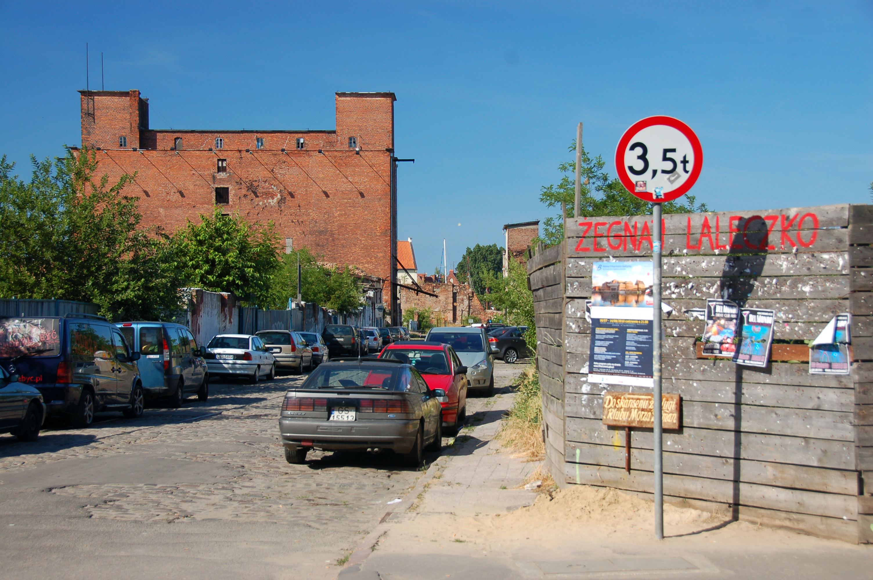 "Deo Gloria" granary on the Granary's Island in Gdańsk. Picture taken in Gdańsk after Wikimania 2010 conference.